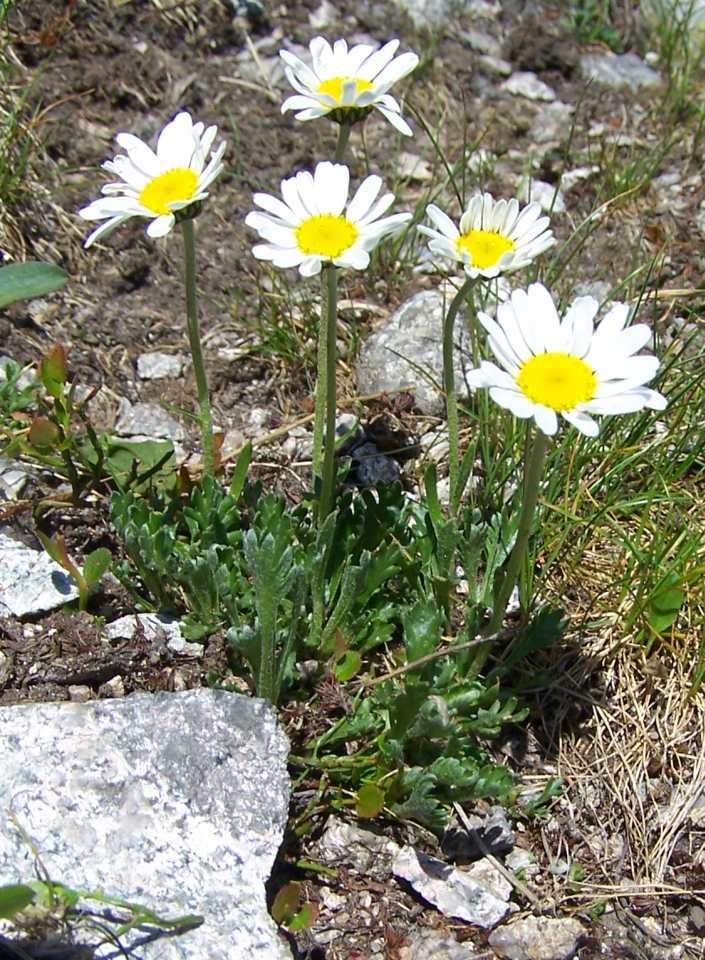 Leucanthemopsis alpina = Chrysanthemum alpinum (pl. wrotycz alpejski)